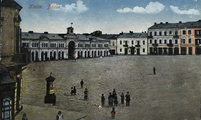 Former market in Kielce (Poland)